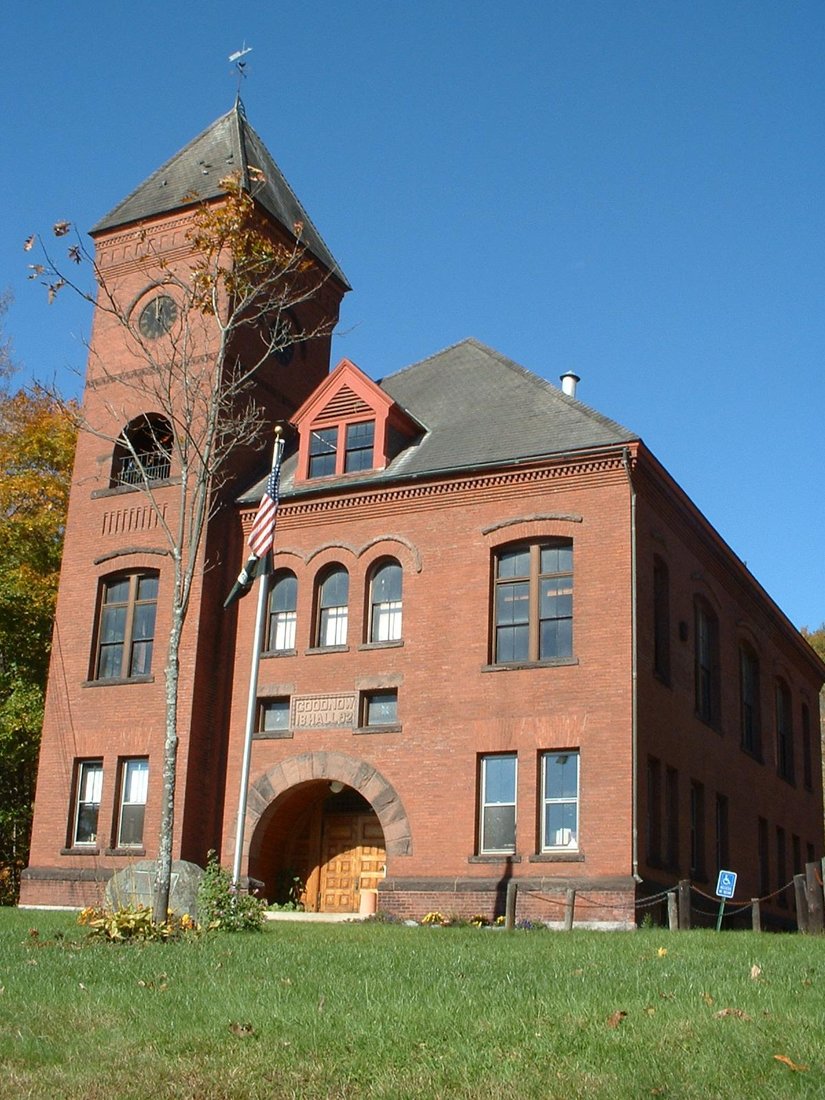 Charlemont's Goodnow Hall, c. 1882, houses the town offices, and is located along Mohawk Trail Goodnow Hall, Mohawk Trail & Heath Rd, Charlemont, MA